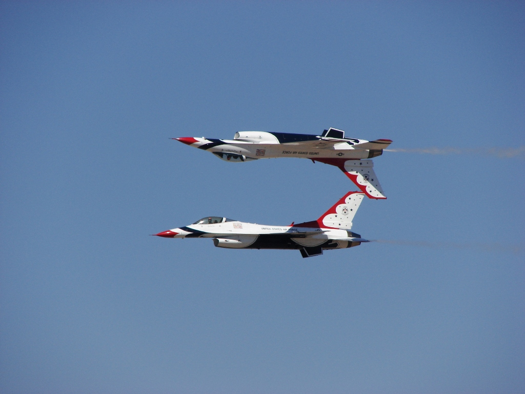 Thunderbirds performing at Reno, Nevada during the National Championship Air Races.